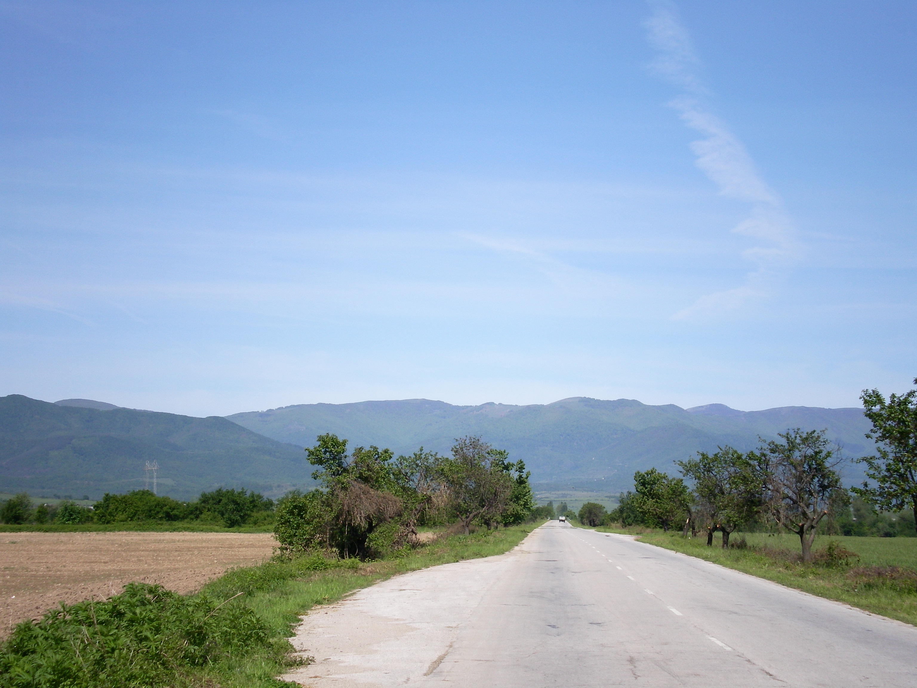 This photo was uploaded during the creation of the first wikitown in Bulgaria – WikiBotevgrad.